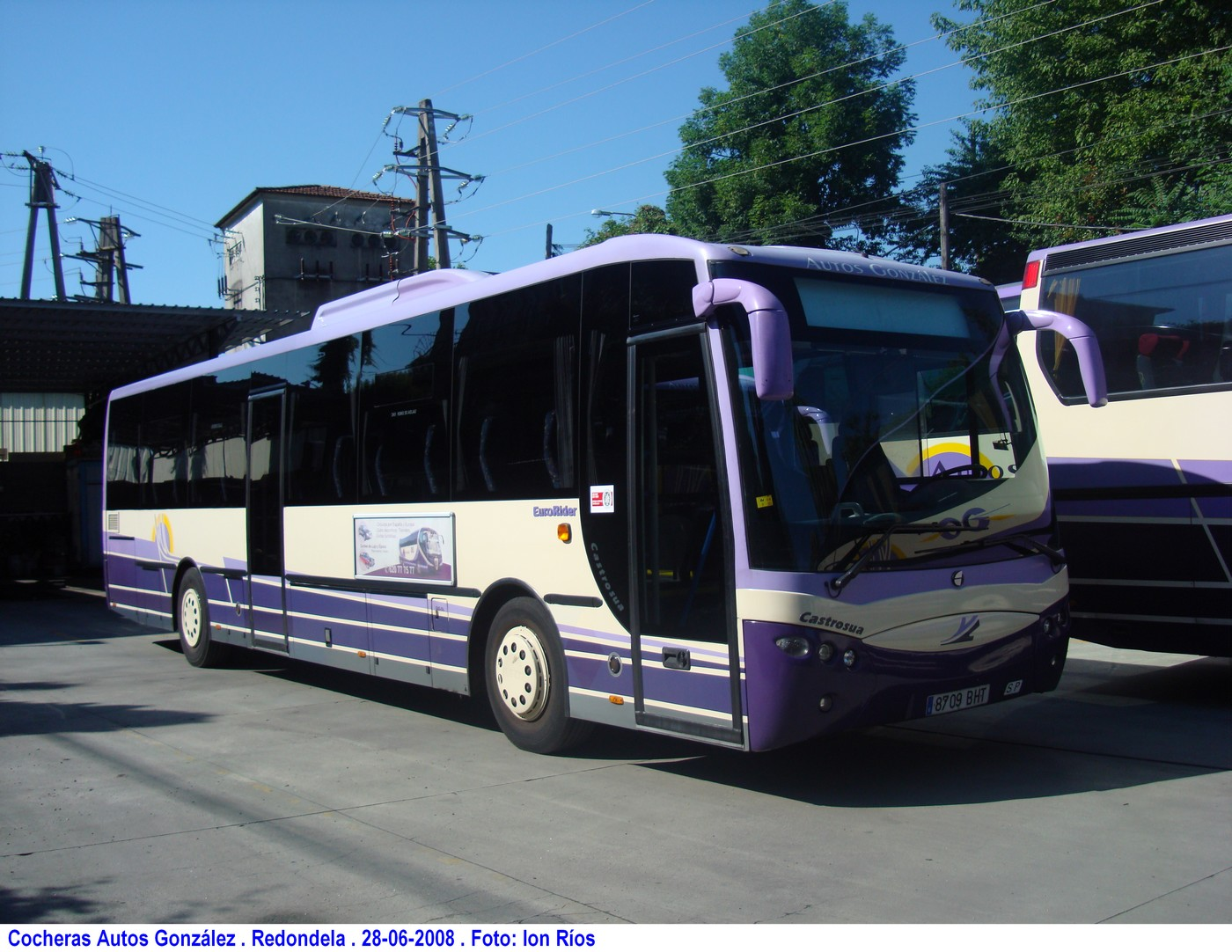 Castrosua CS-40 Magnus S bus (reg. 8709 BHT) with Irisbus EuroRider chassis in Spain. Autos González operator.